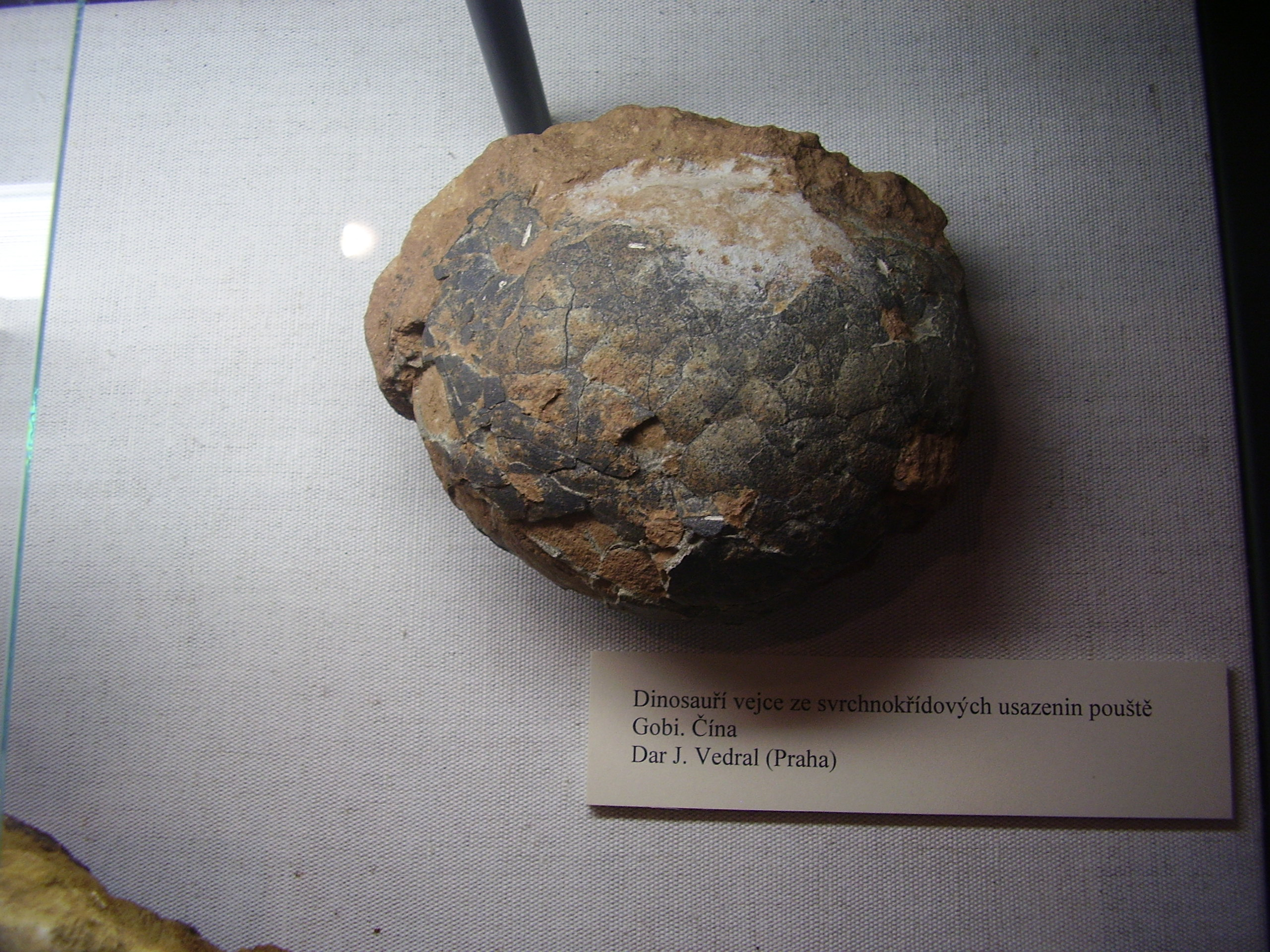 Fossilised dinosaur egg from the Gobi desert, National Museum in Prague (2007).